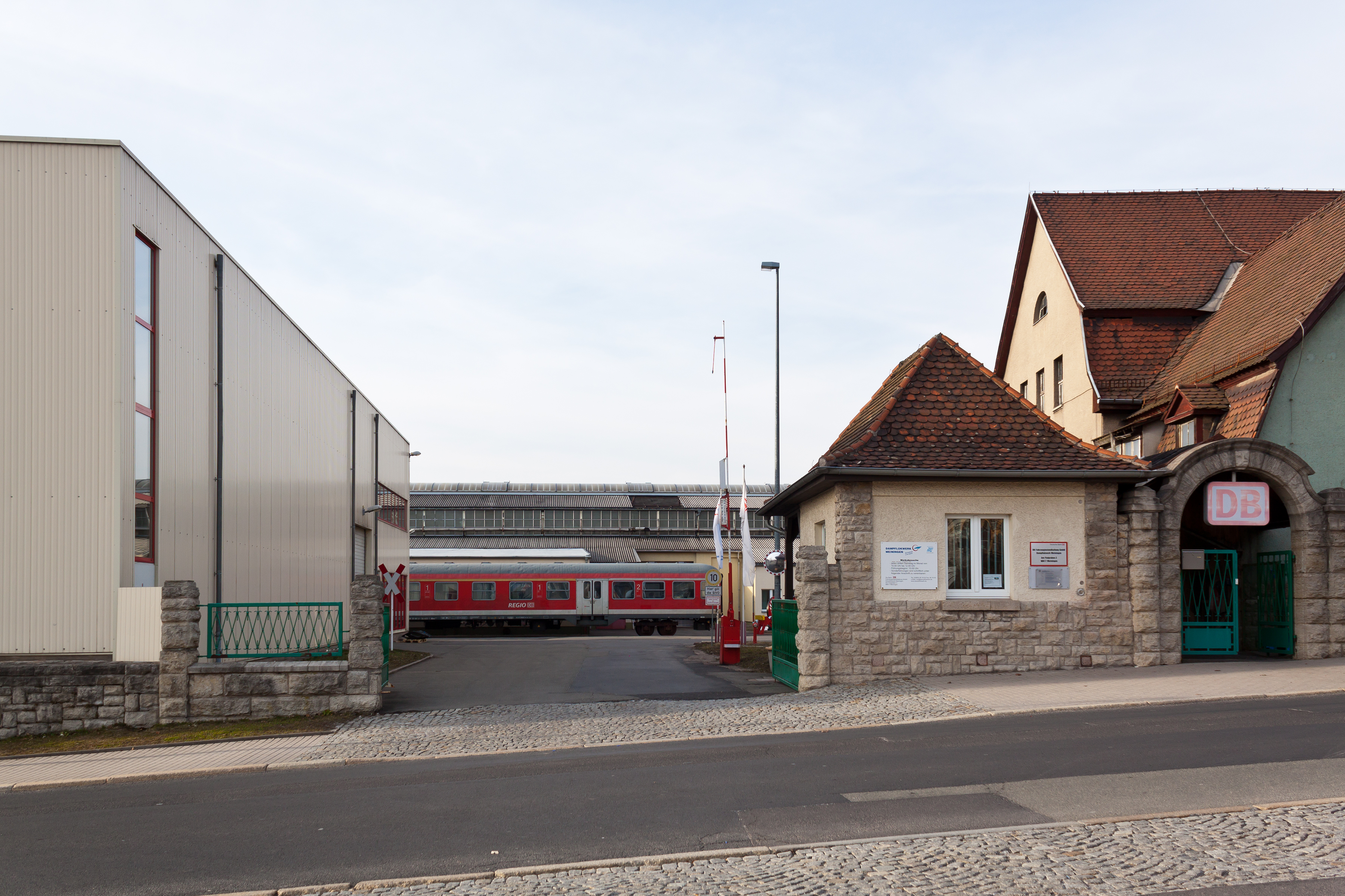 The entrance of the last remaining steam locomotive works of Western Europe in Meiningen, south Thuringia.